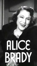 Cropped screenshot of Alice Brady from the trailer for the film Mama Steps Out.